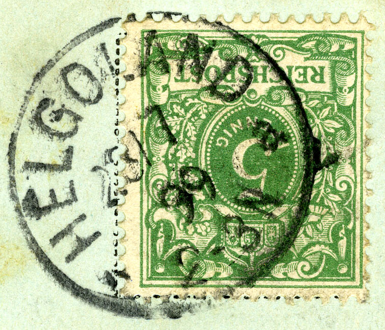 Postmark from Heligoland island, dated 1899-07-23. Reichspost issue 1889, 5 pfennig stamp, Mi46.